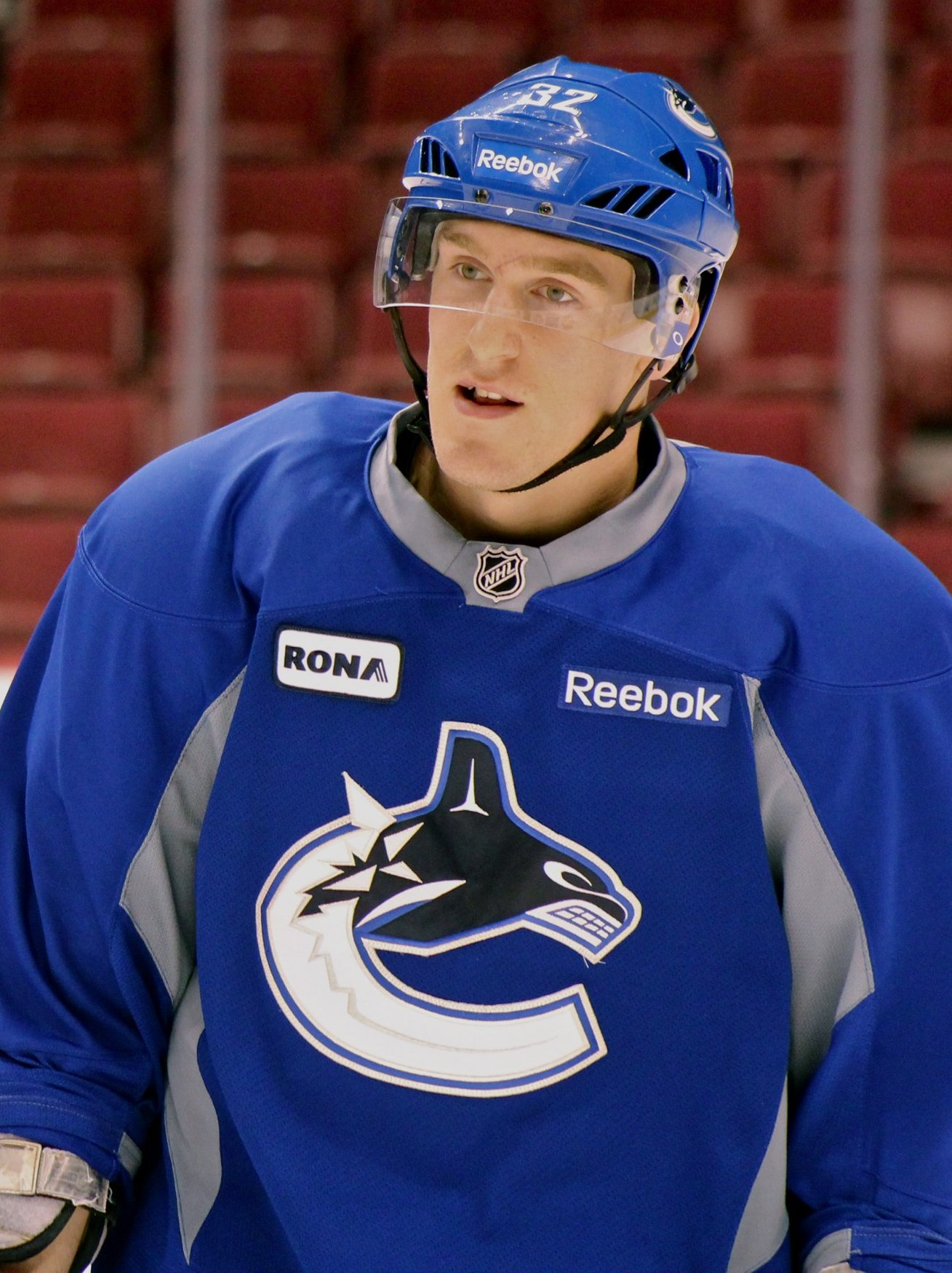 Vancouver Canucks forward Dale Weise during a practice on March 9, 2012.